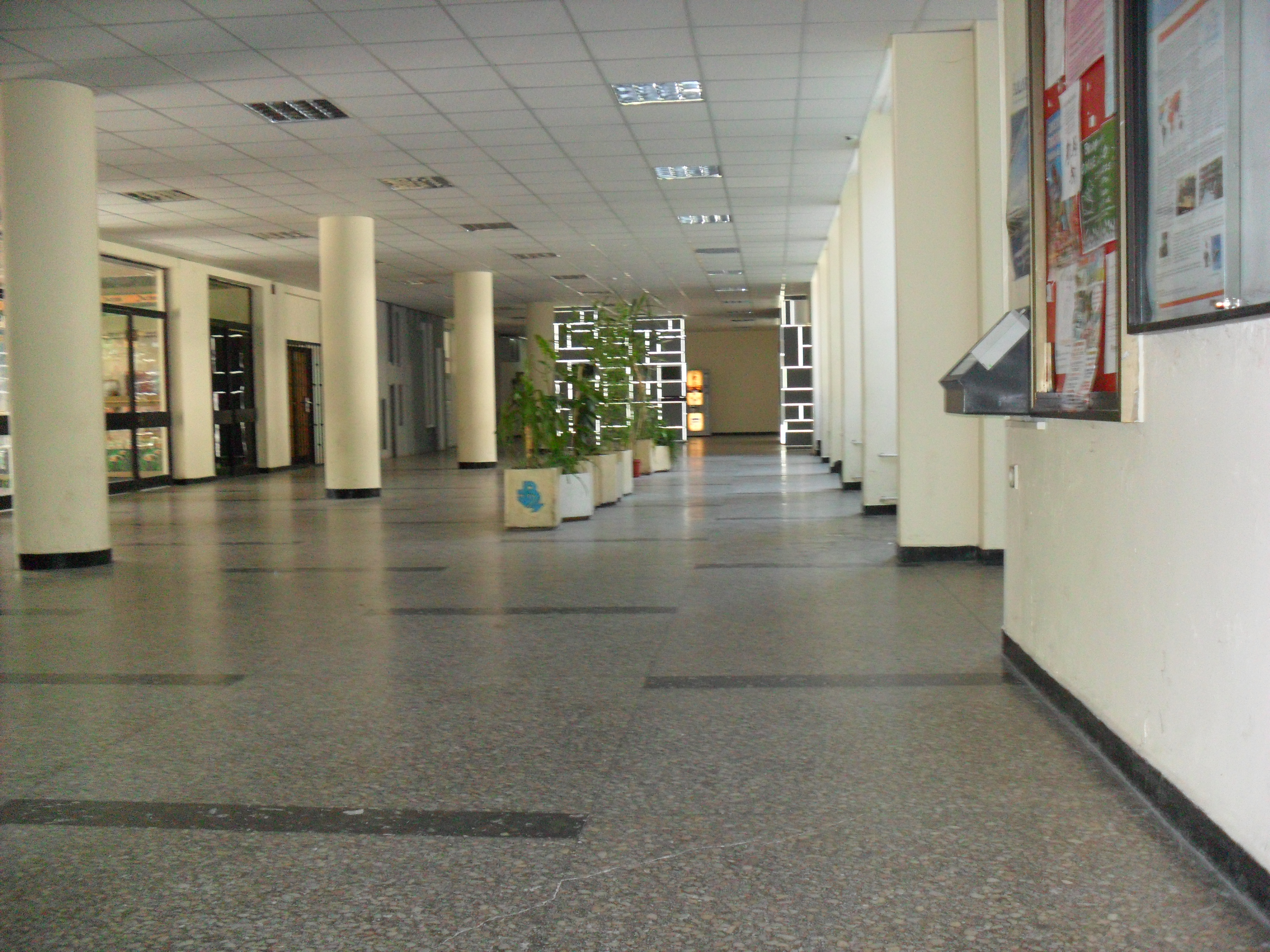 The photo were taken in April 2015.